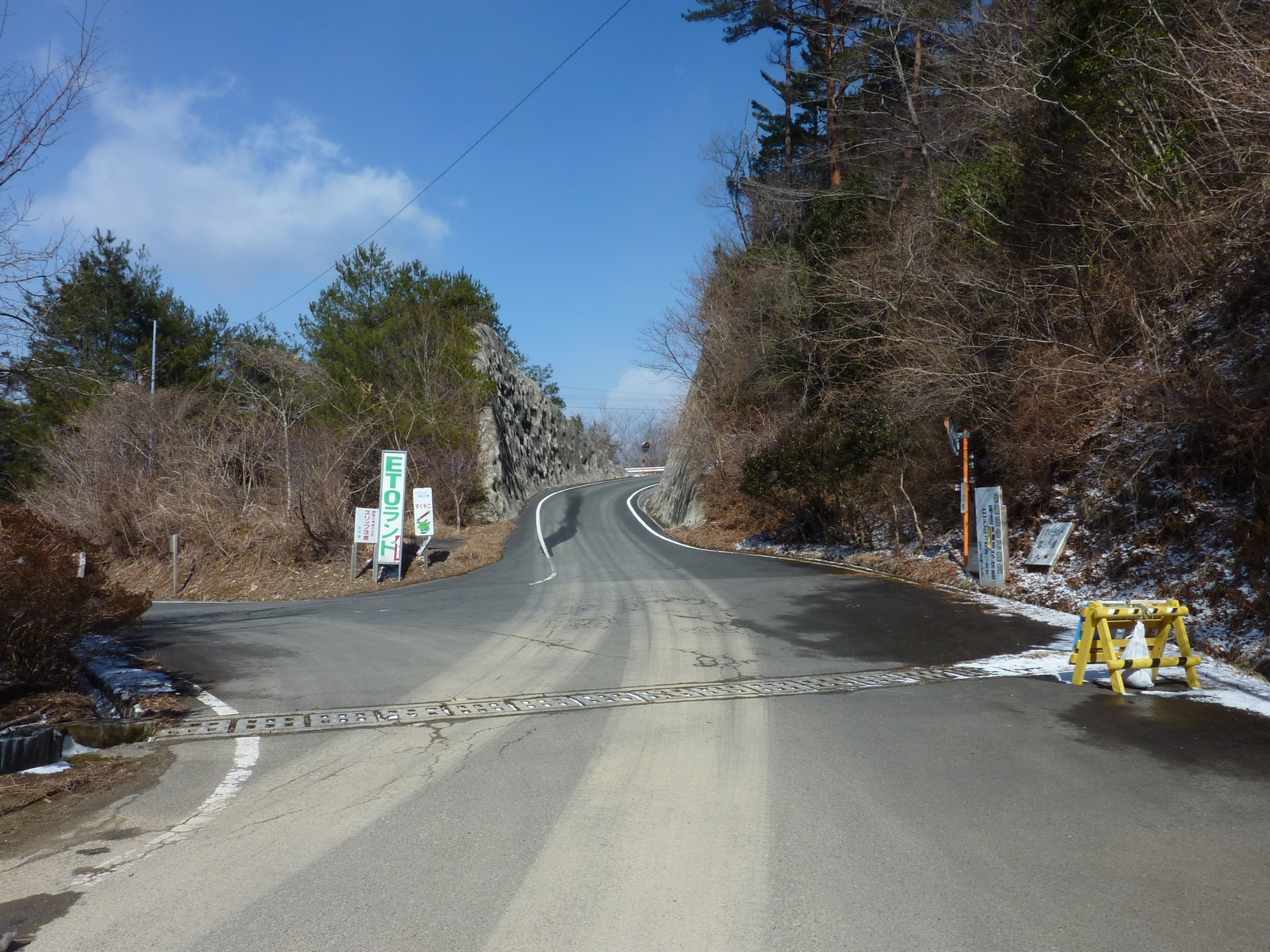 Roppo Kaido (Forest Road - Nobeoka City, Miyazaki Prefecture, Japan)